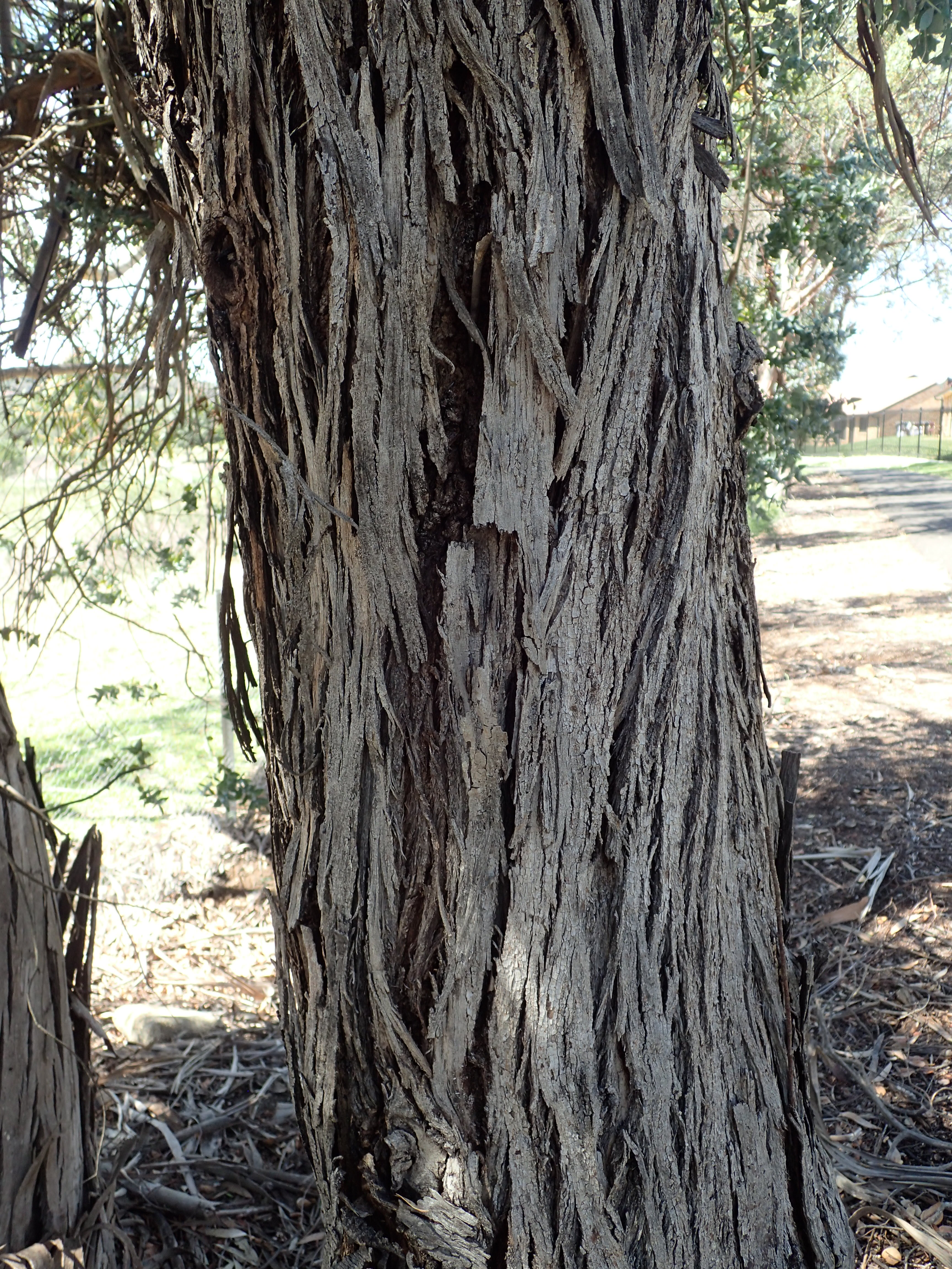 Eucalyptus crenulata near along the path adjacent to Wright Village at the University of New England, Armidale